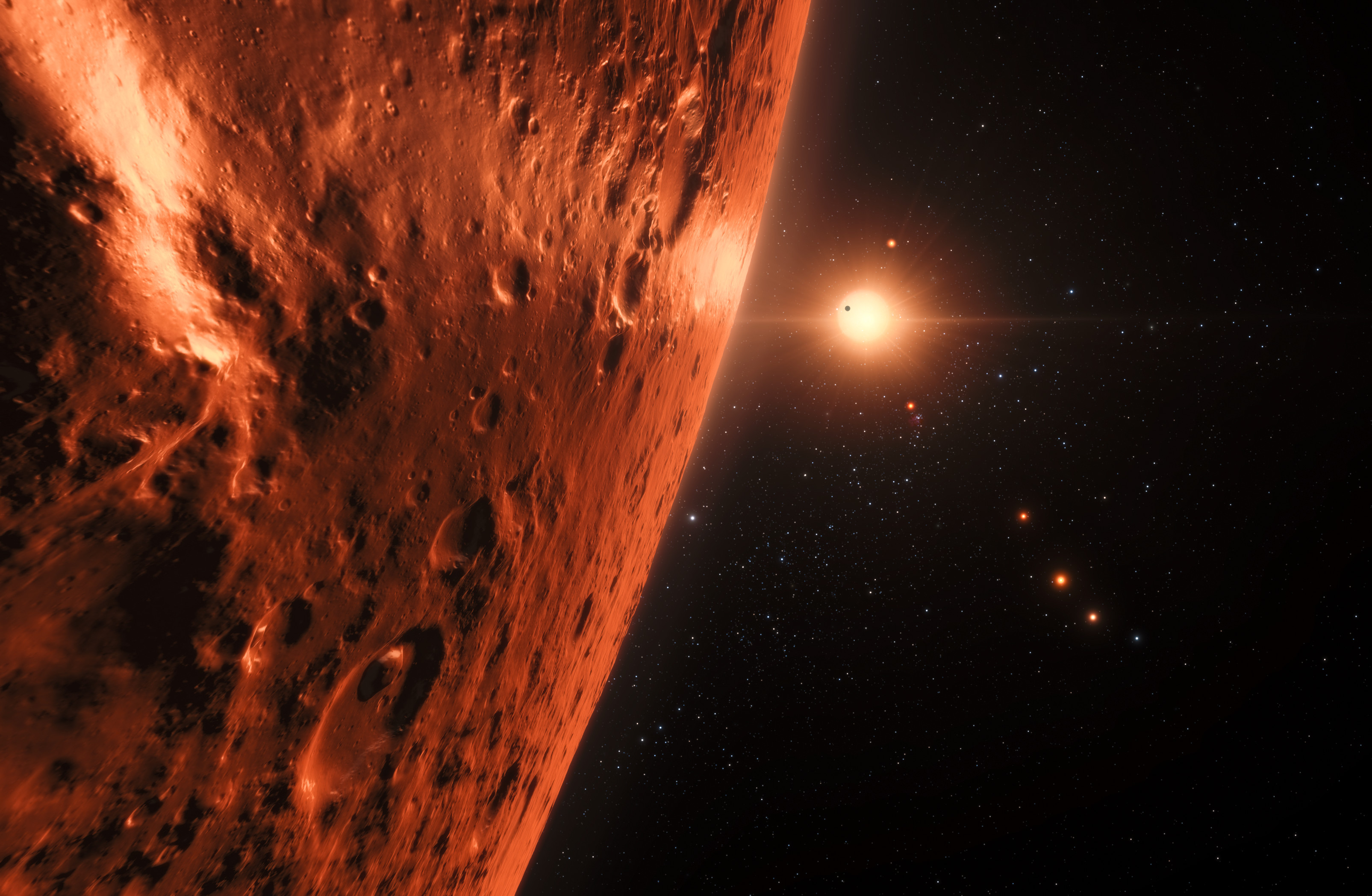 This artist’s impression shows the view from the surface of one of the planets in the TRAPPIST-1 system. At least seven planets orbit this ultracool dwarf star 40 light-years from Earth and they are all roughly the same size as the Earth. Several of the planets are at the right distances from their star for liquid water to exist on the surfaces. This artist’s impression is based on the known physical parameters of the planets and stars seen, and uses a vast database of objects in the Universe.